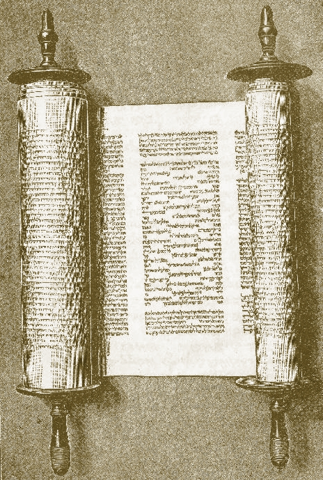 An engraving of a scroll of the Penteteuch in Hebrew characters, British Library Add. MS. 4,707. The scroll is open to the column showing Exodus 15:1-19.